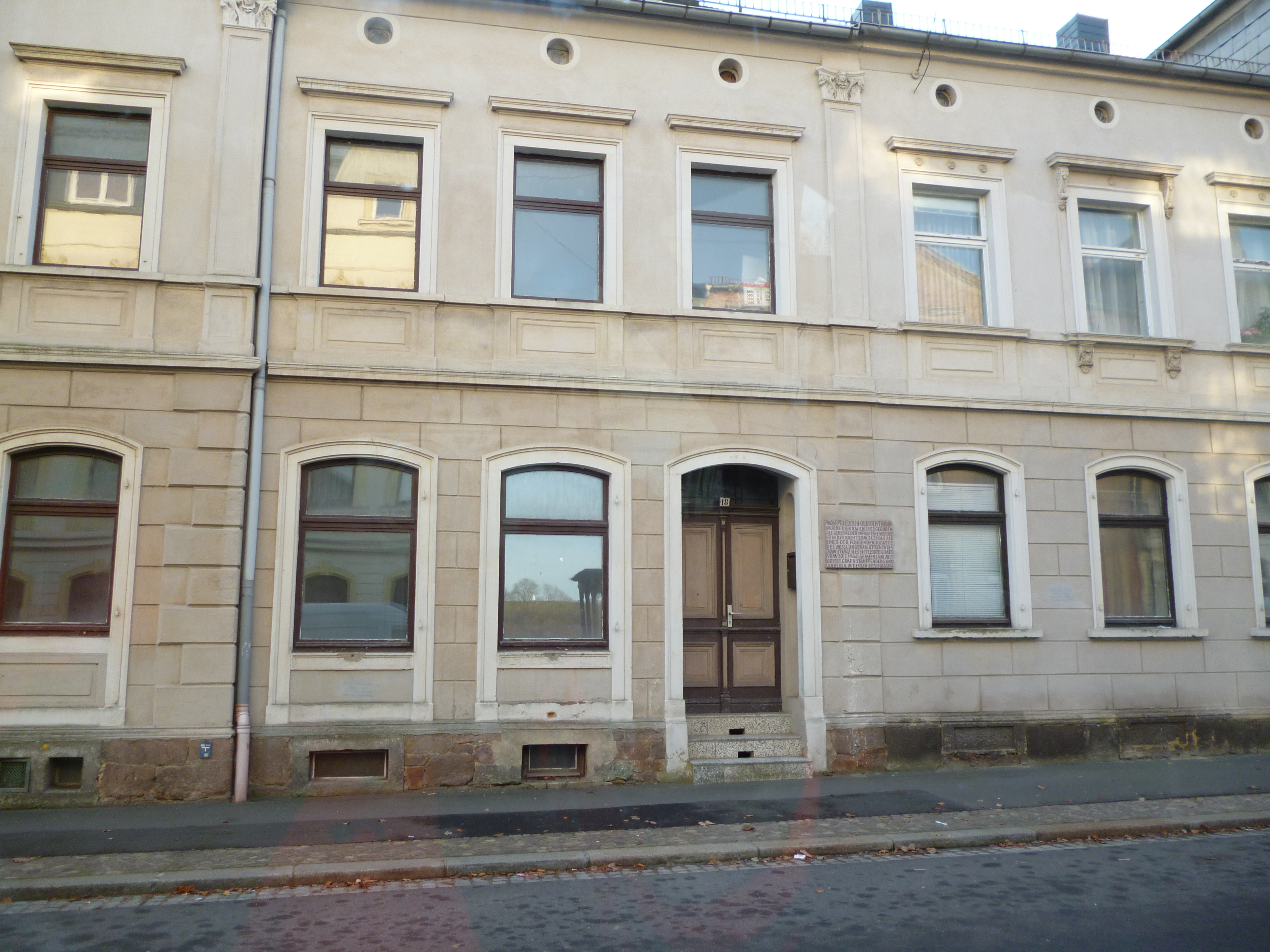 Birthplace of general Friedrich Olbricht (1888-1944) at Leisnig Germany Saxony